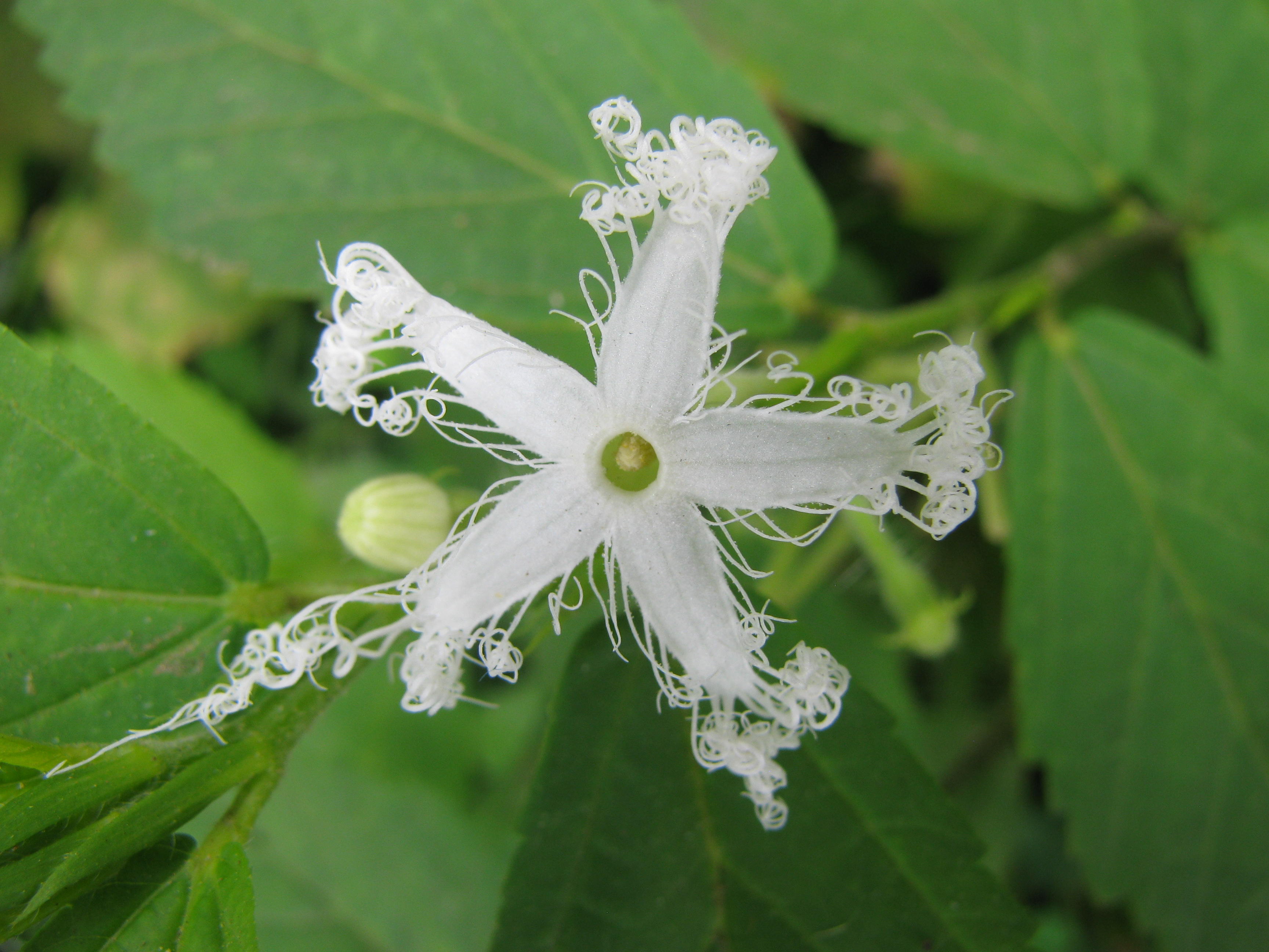 Great Fringed-Flower Vine Trichosanthes tricuspidata found in Shantiniketan, West Bengal,India.